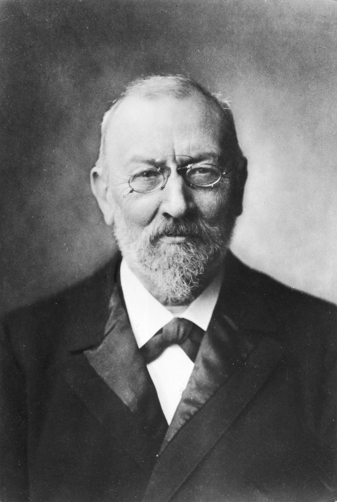 Karl Madsen (1855-1938), Danish art historian